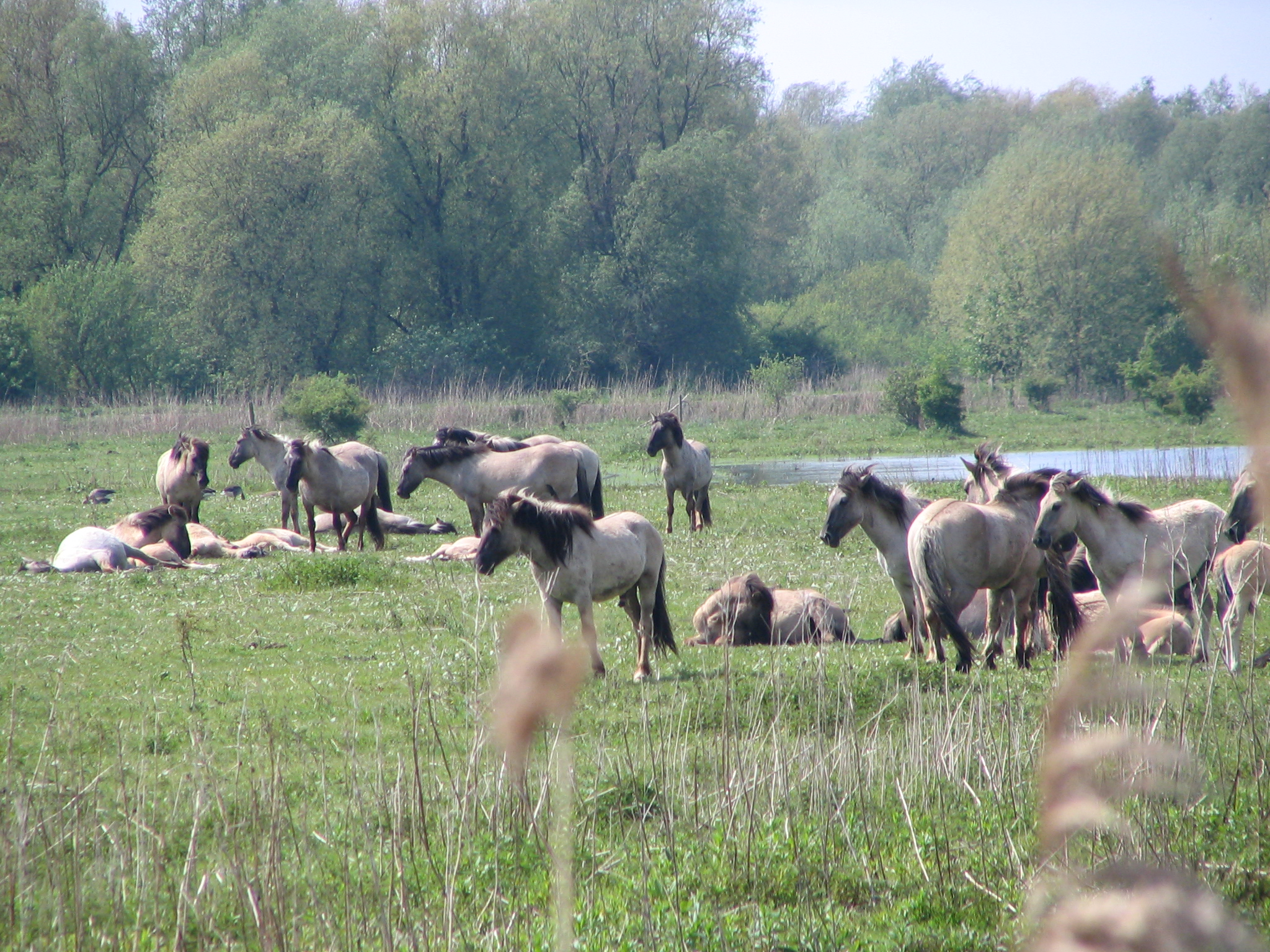 Horses resting in a field